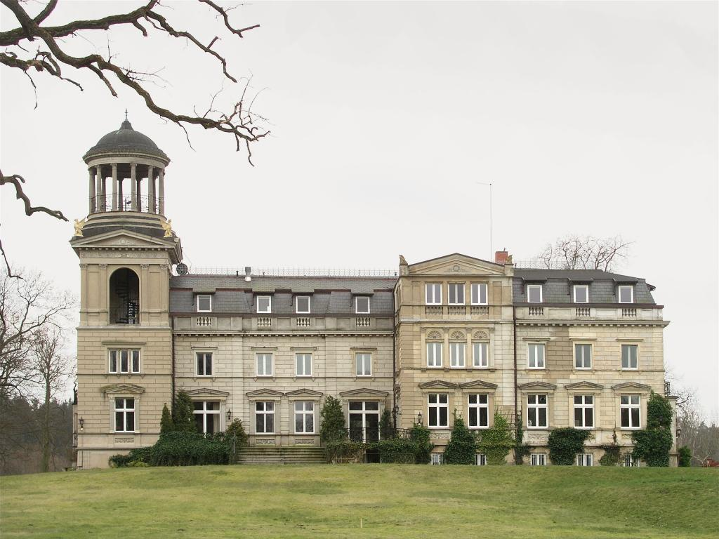 Kaarz (Germany, Mecklenburg), castle, photo 2007